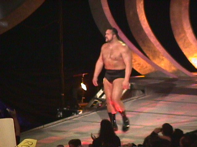 The Big Show entering the ring for a match with The Big Bossman for WWF's Heat. The match was then actually shown on Smackdown after the scheduled match of Droz vs. D-Lo Brown left Droz a quadriplegic and the WWF did not air it (good move#. October 7, 1999 Nassau Coliseum - Long Island, NY.